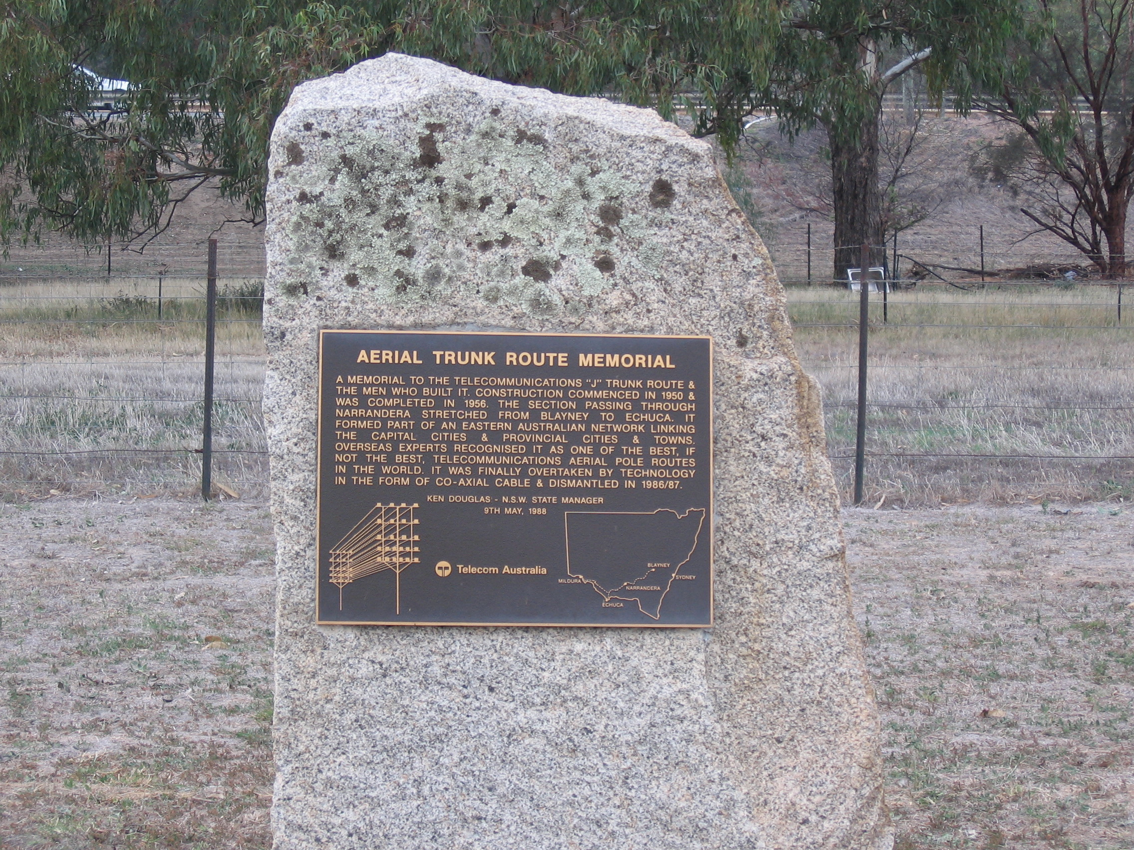 Trunk line memorial at Narrandera, New South Wales